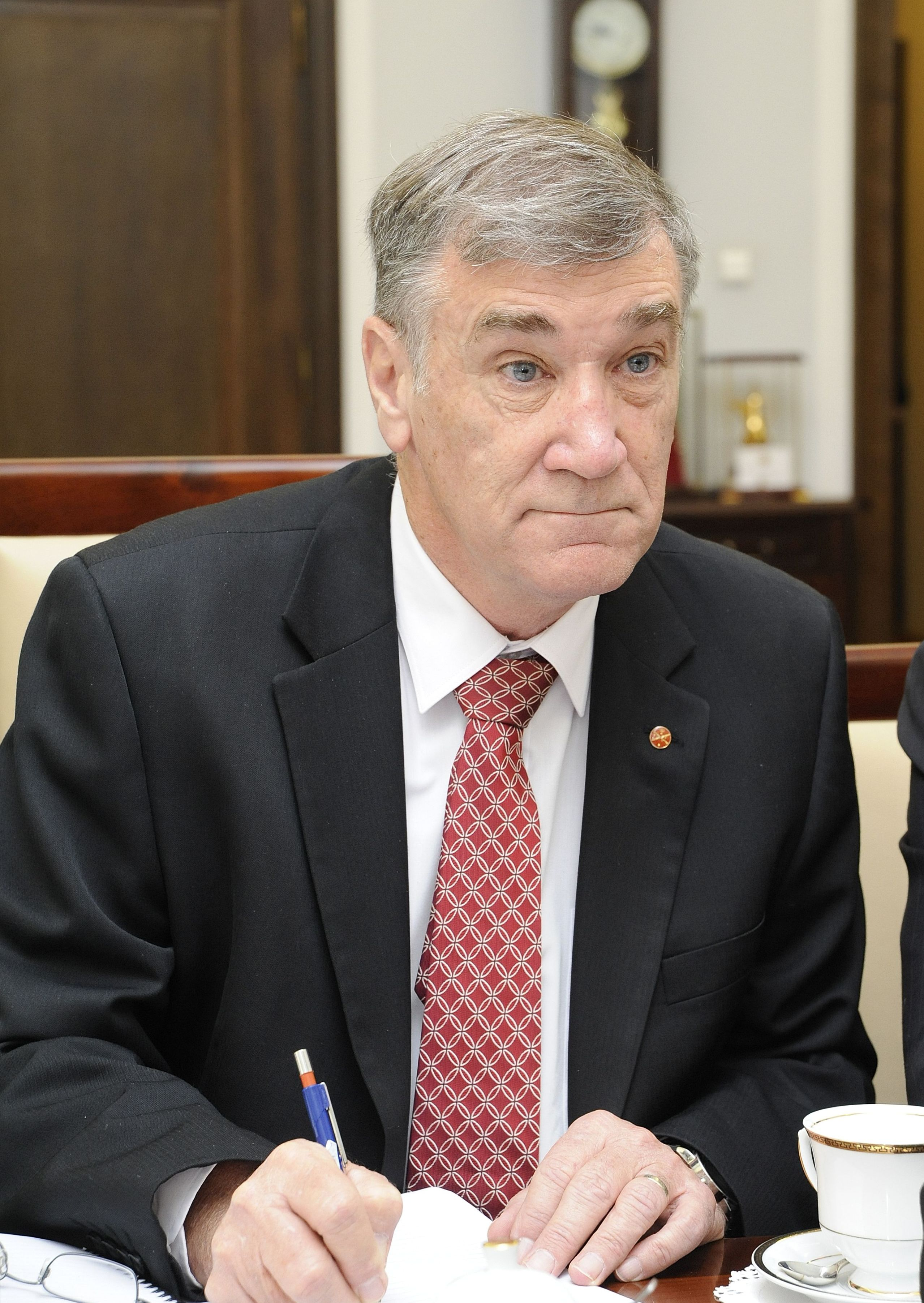 President of the Australian Senate John Hogg in the Polish Senate